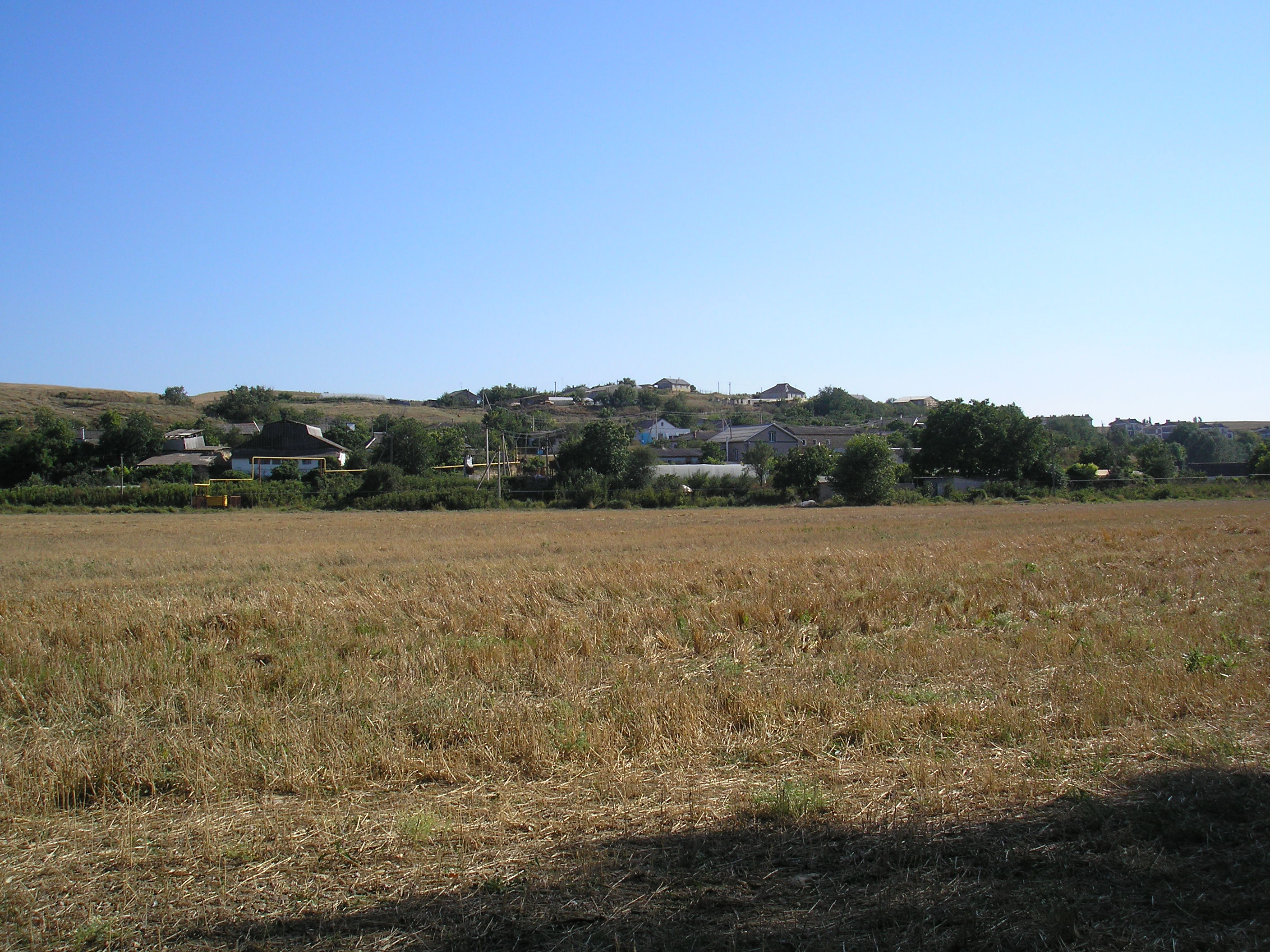 Village Bryanskoe, Bakhchisaray district, Crimea